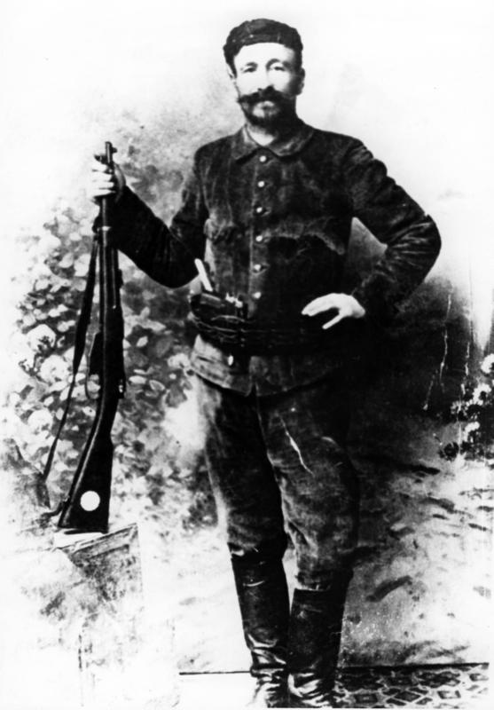 Portrait of Greek revolutionary (makedonomahos, andart) Eftimius Kaudi